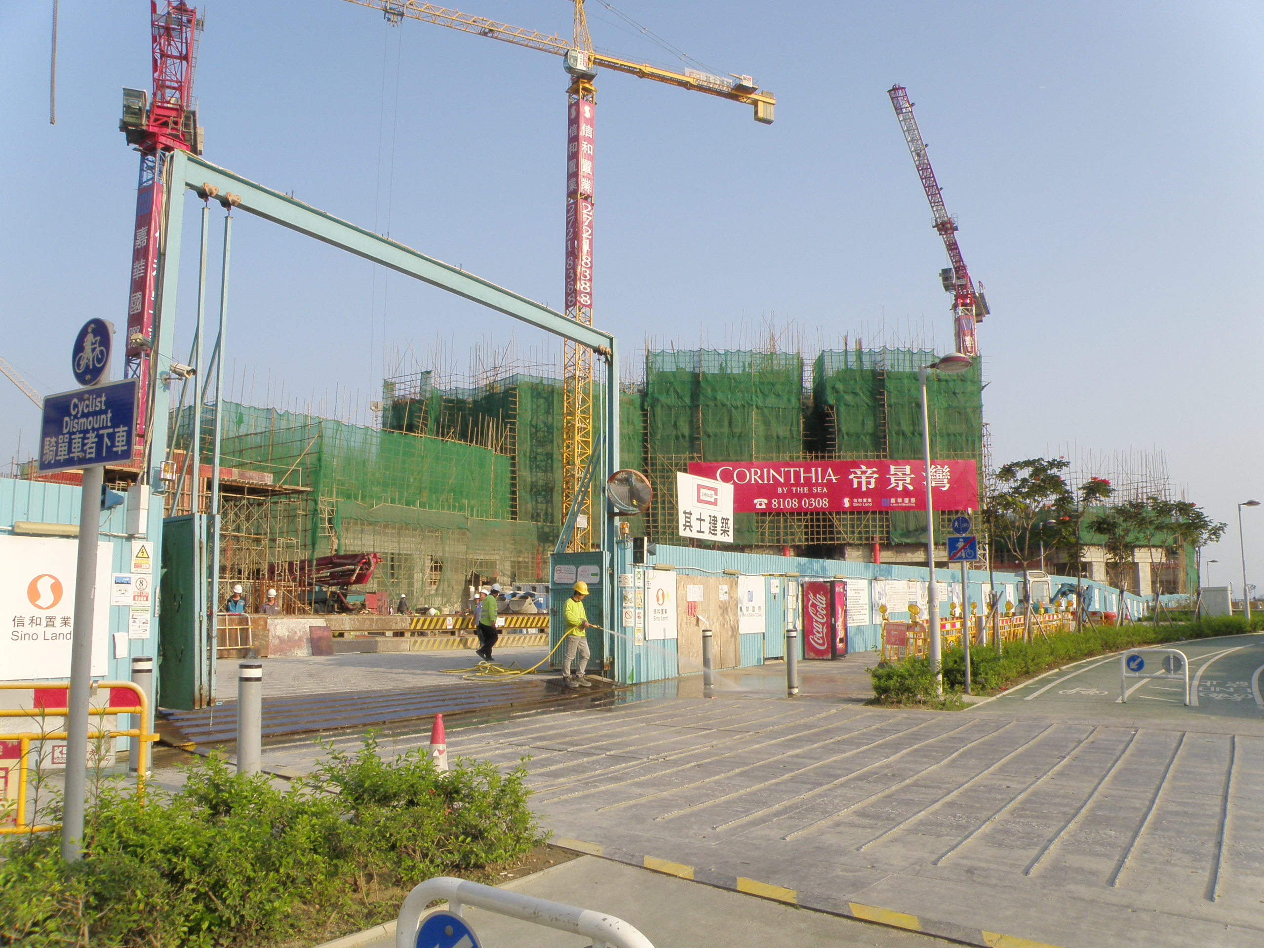 Corinthia by the sea in Tseung Kwan O, Hong Kong.